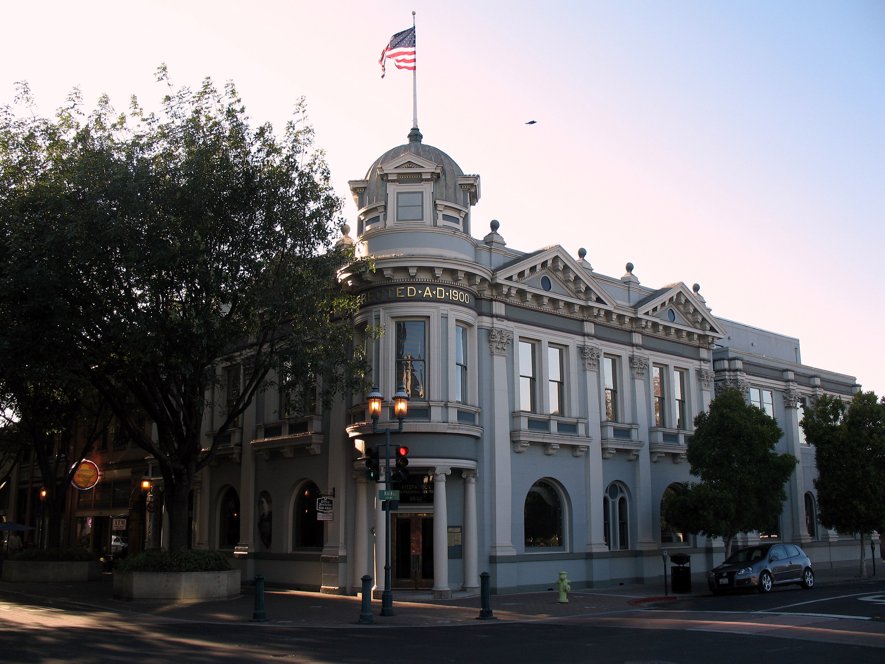 National Register of Historic Places listings in San Mateo County, California. Redwood City Historic Commercial Buildings District, Bank of San Mateo County, 2000 Broadway, Redwood City, California